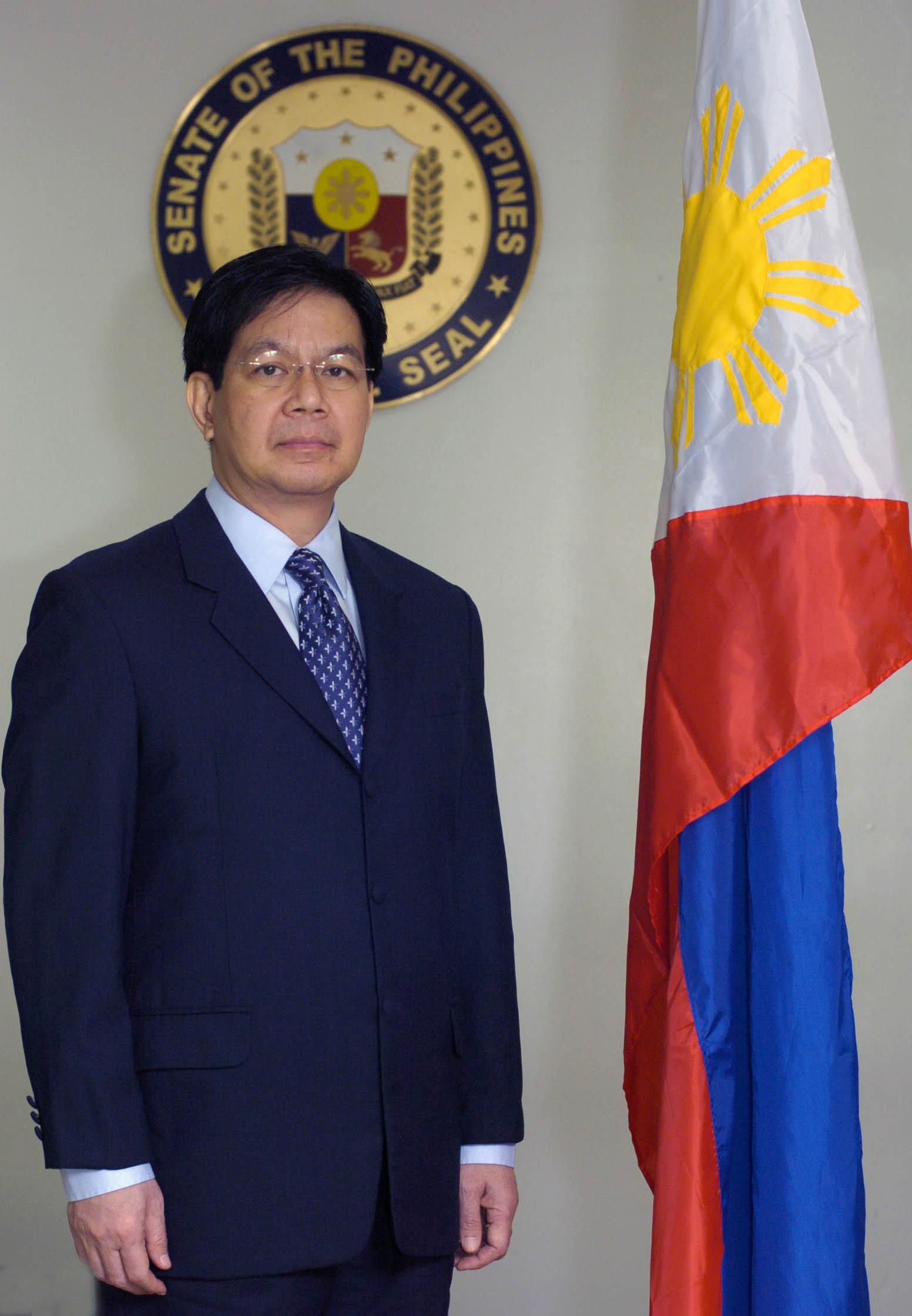 Senator Panfilo Lacson's profile photo, taken 2007